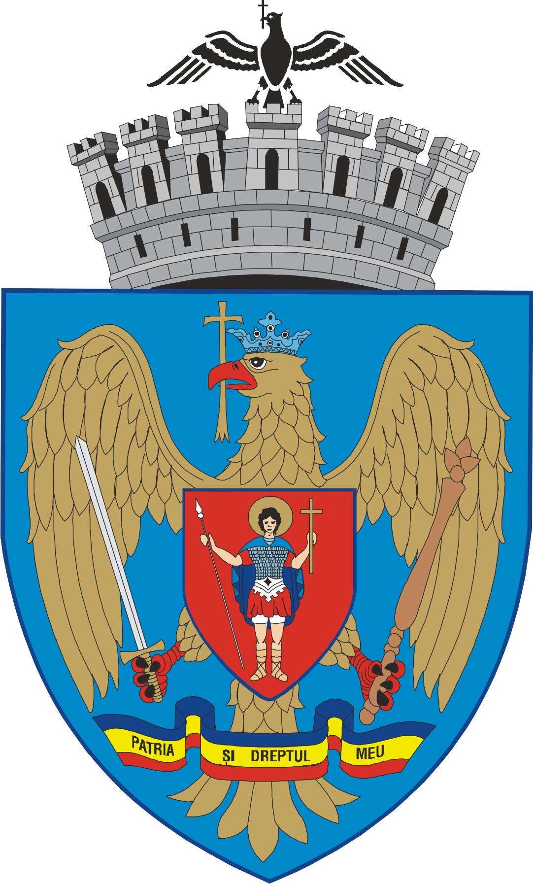 Coat of arms of Bucharest, Romania.